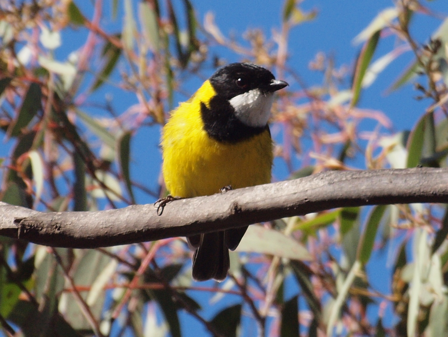 A male Australian Golden Whistler at Mulligans Flat Nature Reserve, Canberra, Australia.